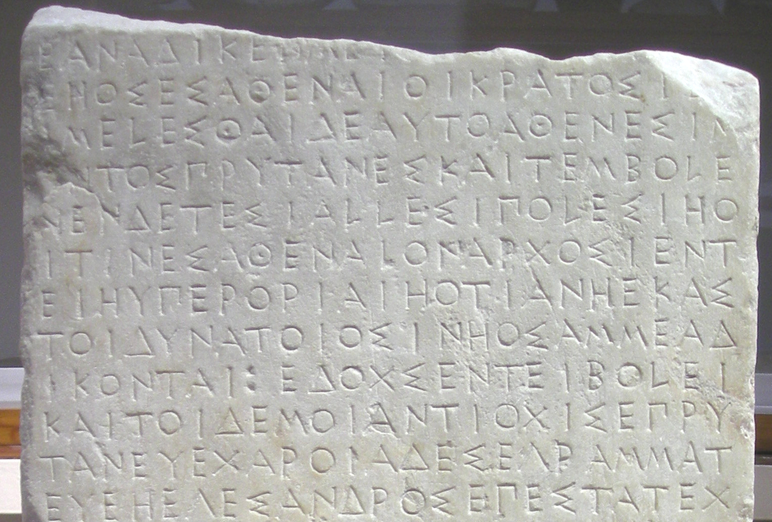 Detail of a marble stele inscribed with a decree of the Athenian boulē, c. 440–425 BC. Photograph taken in Athens Epigraphic Museum. Text cf. IG I³ 156 (see below)